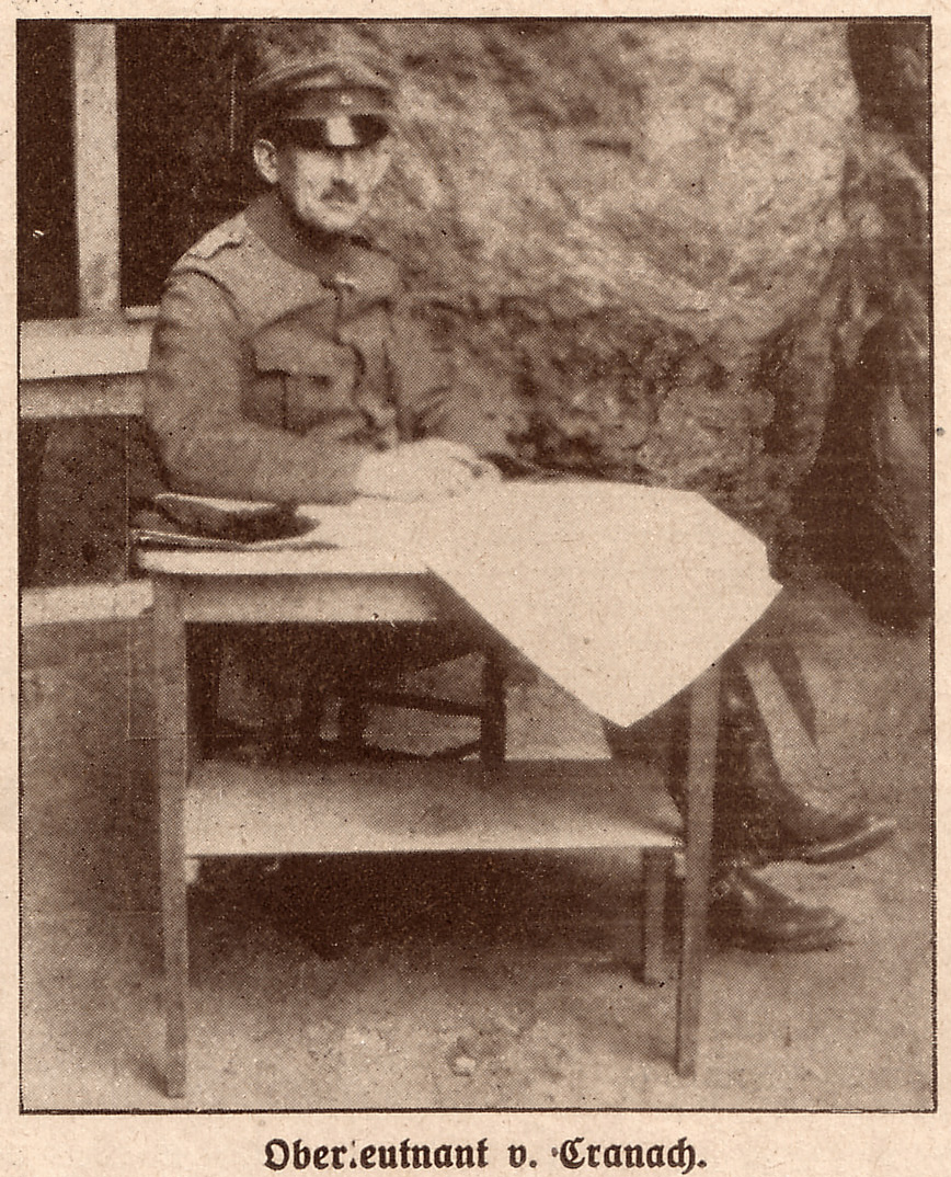 Lieutenant-Colonel Elimar von Cranach